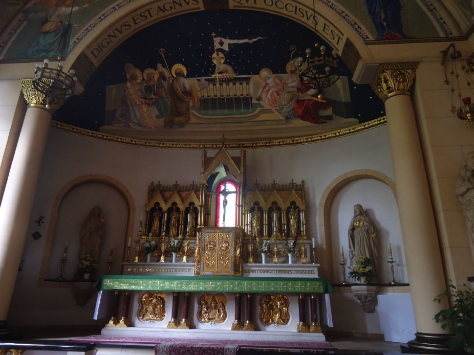 High altar of St. Peter, Berlin-Wilmersdorf